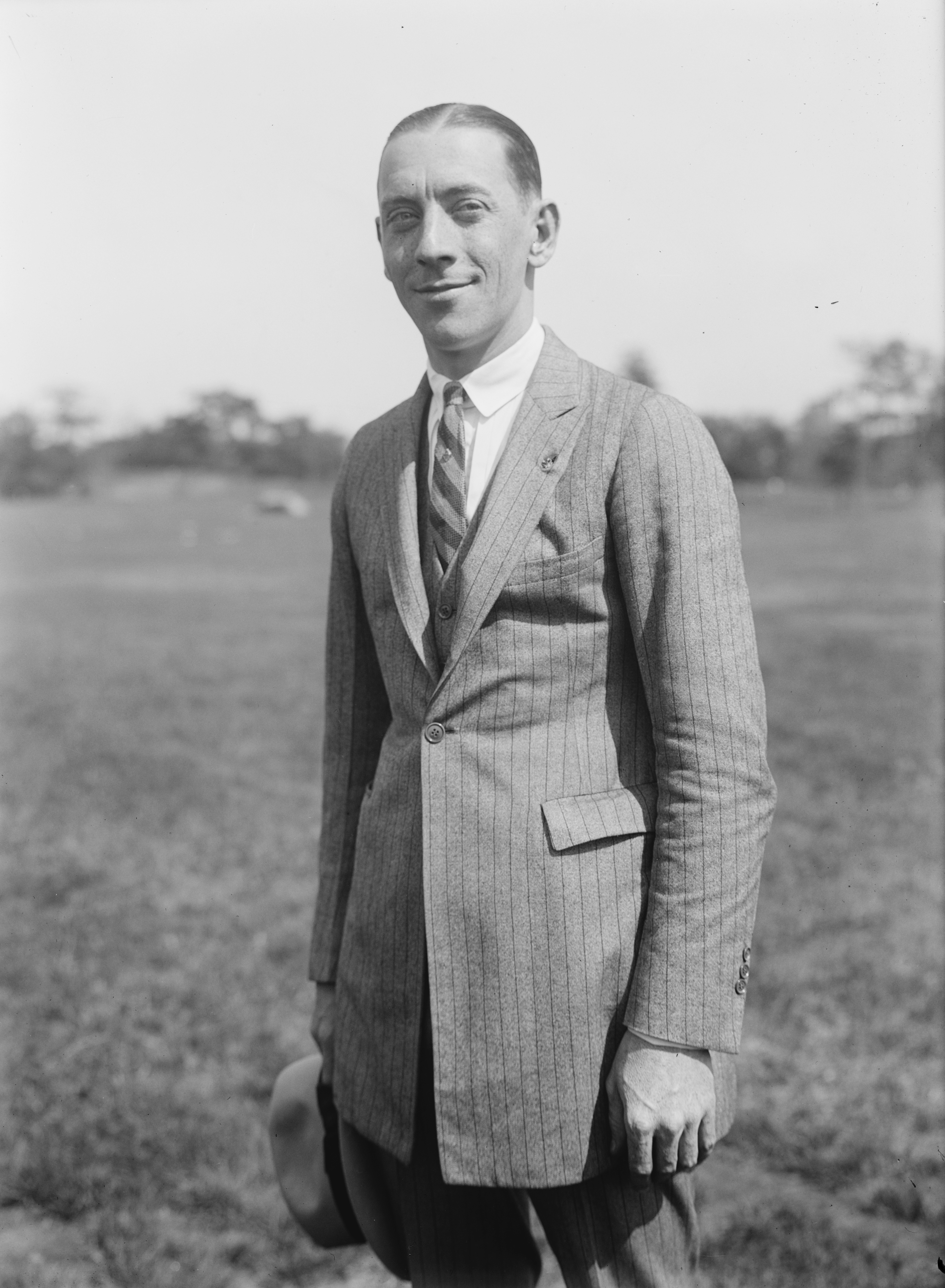 Composer & pianist J. Russell Robinson